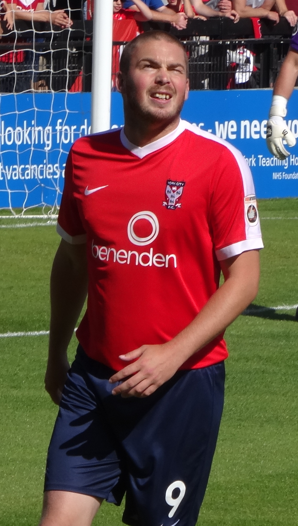 Richard Brodie playing for York City against Boreham Wood at Bootham Crescent, York on 13 August 2016